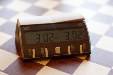 Electronic chess clock DGT XL